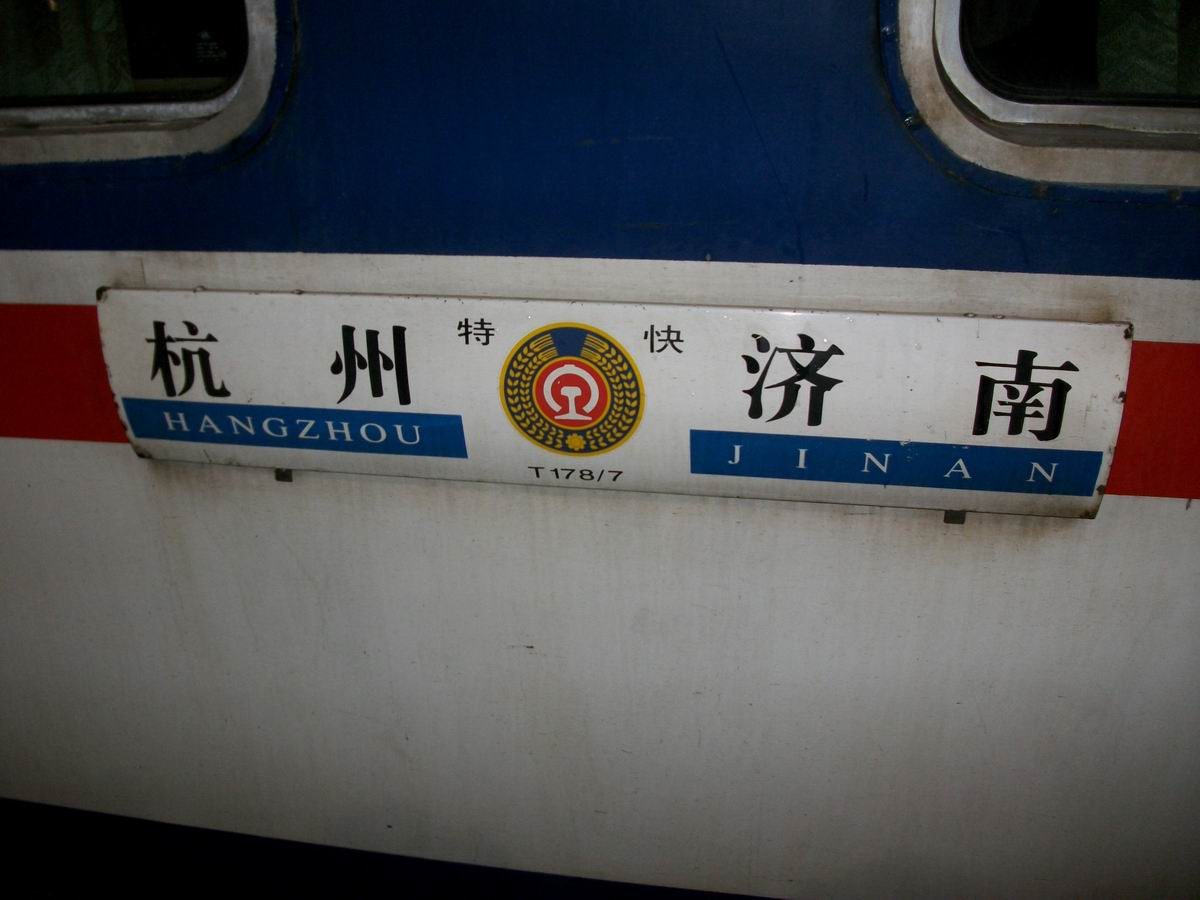 An information board of the train T177/178.